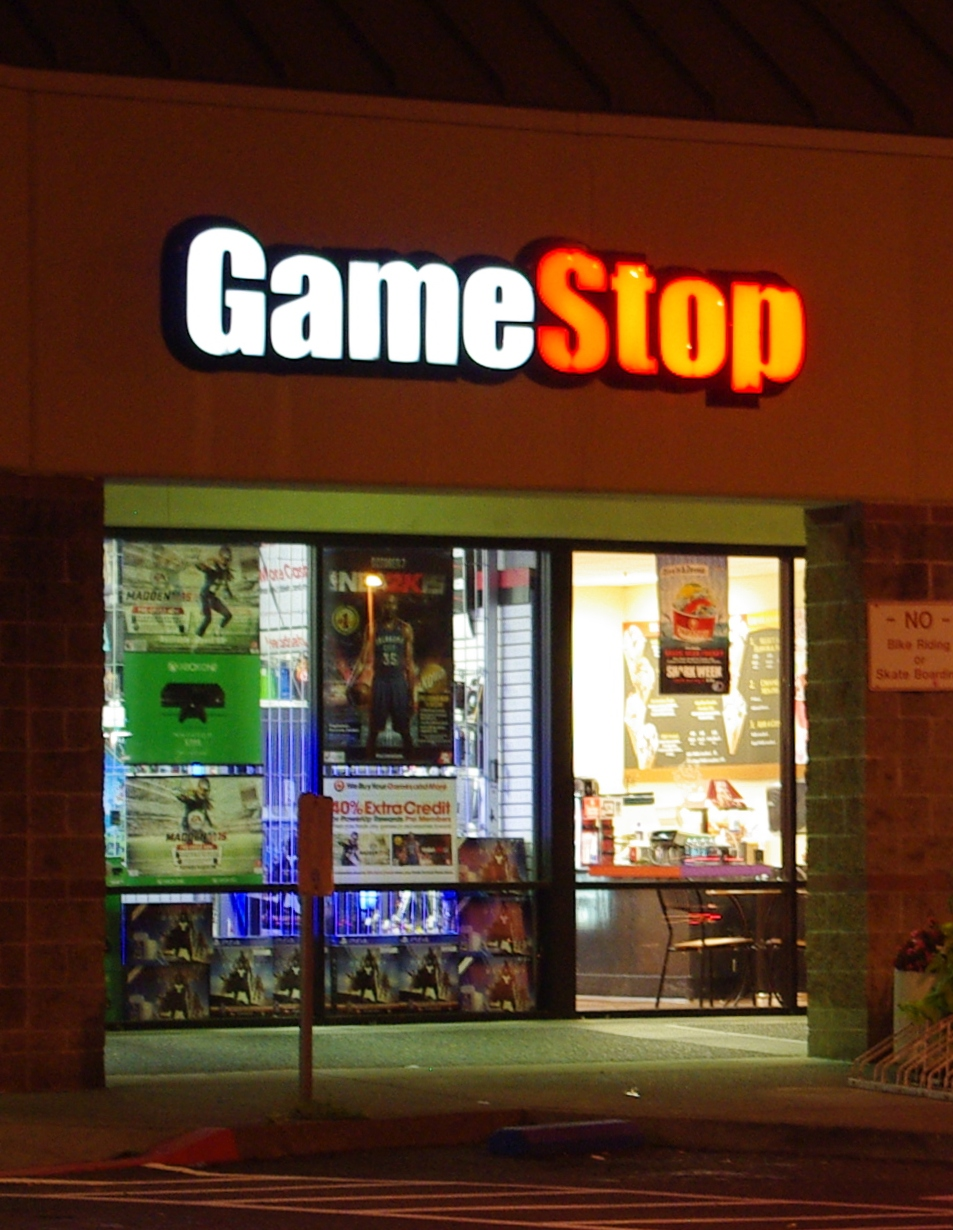 GameStop in Hillsboro, Oregon.